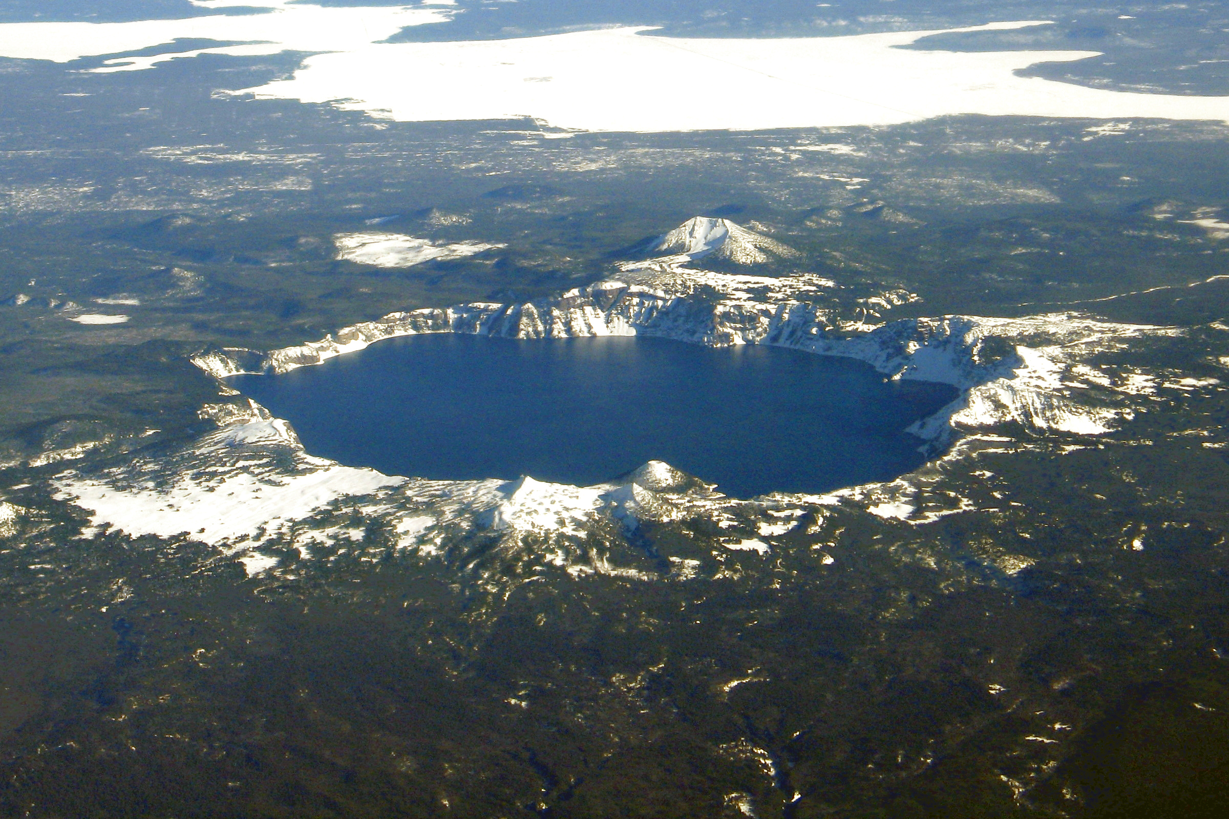 Aerial view, Crater Lake, Wizard Island, and Mount Scott, as seen from the west.